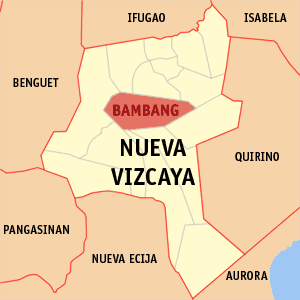 Map of Nueva Vizcaya showing the location of Bambang